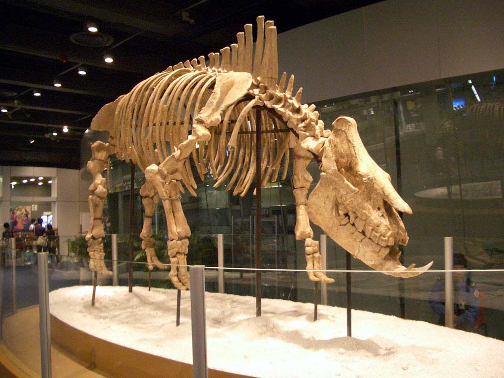 skeleton of Chilotherium displayed in Hong Kong Science Museum